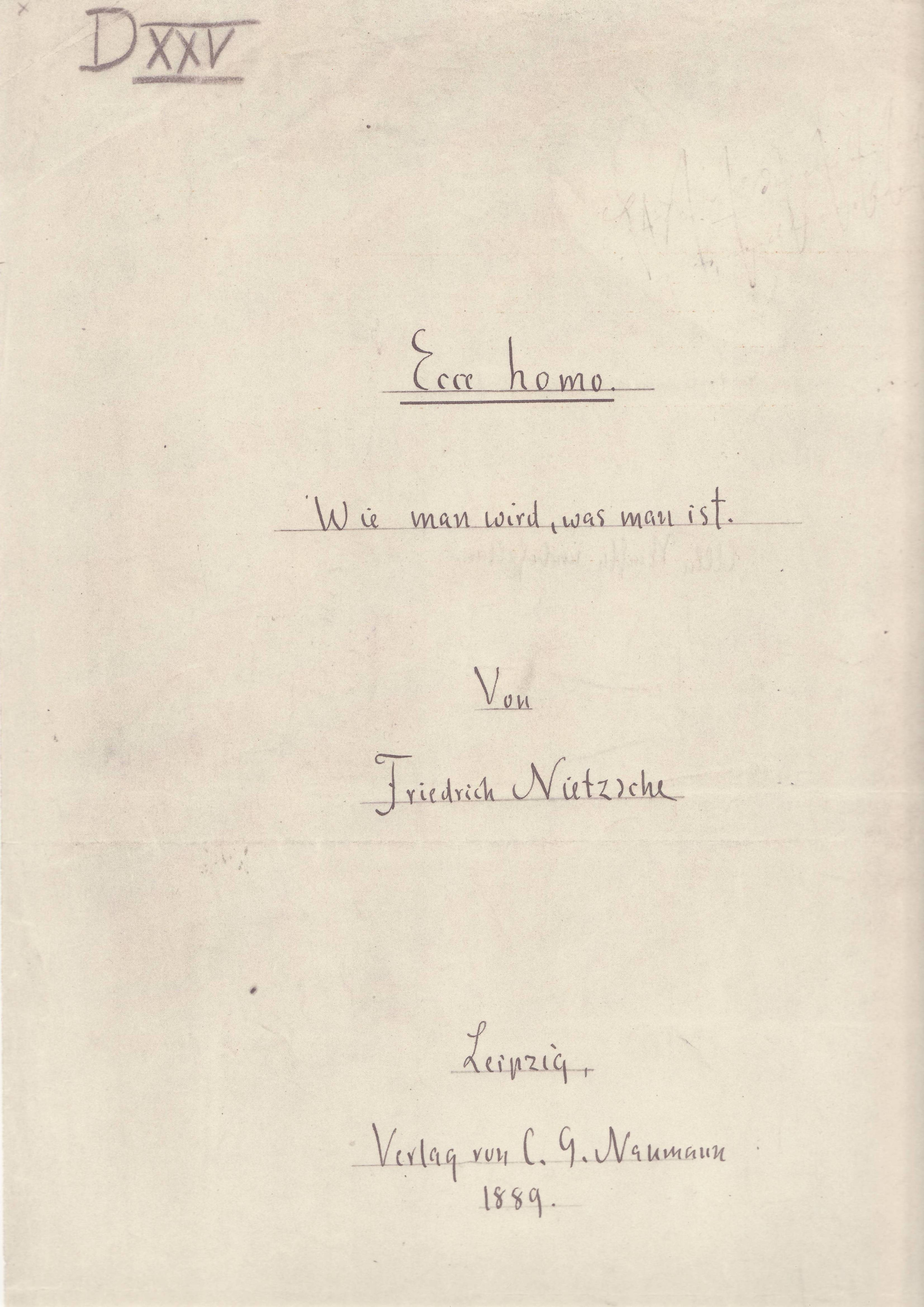 Friedrich Nietzsche's Ecce homo, front cover of the manuscript. (Detail.)